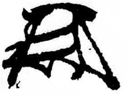 The kaō (calligraphic signature) of Oda Nobunaga (died 1582)